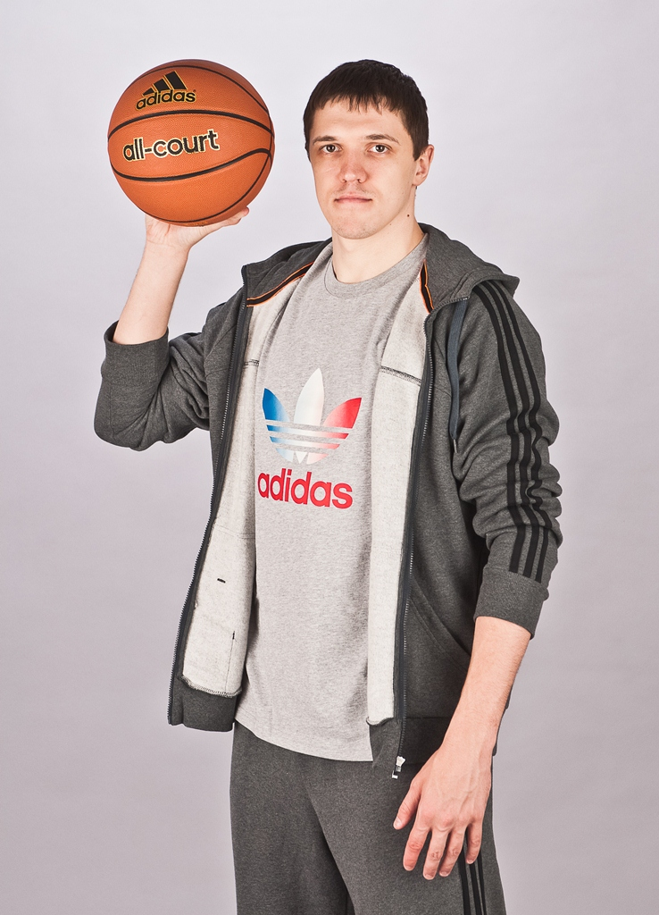 Russian bbal player